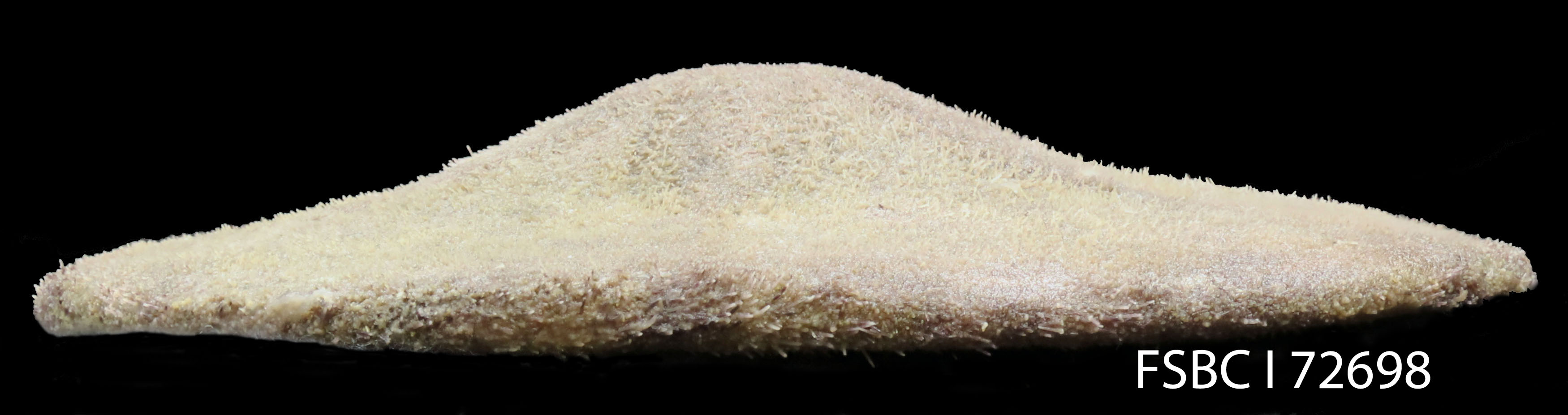 Scientific name: Clypeaster luetkeni'